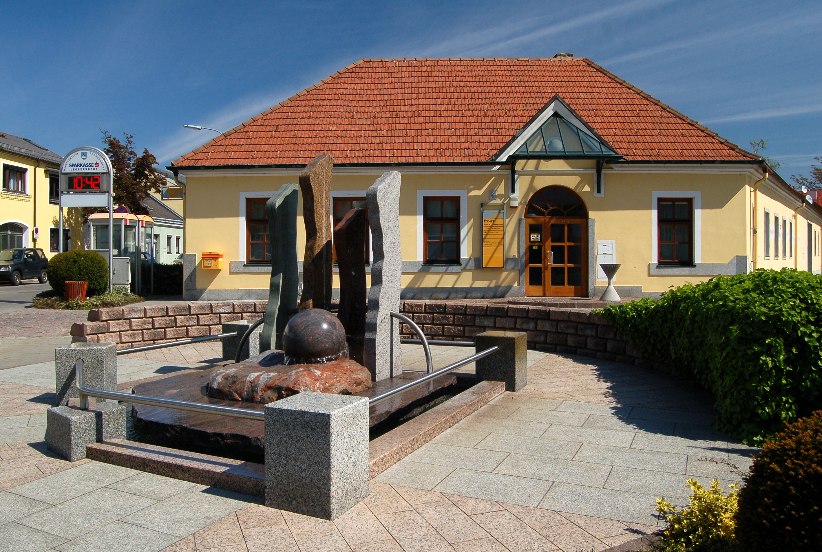 Fountain and post office in Leobersdorf, Lower Austria.